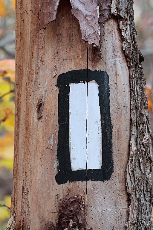 A blaze on the Bruce Trail -- Mono Cliffs Provincial Park, Ontario, Canada